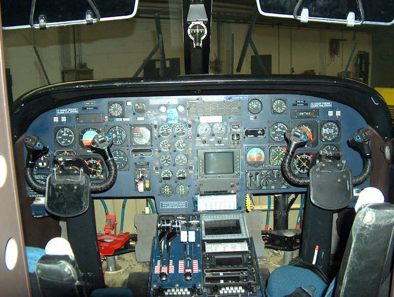 Do 228 of LGW, photo by Oliver Grzimek